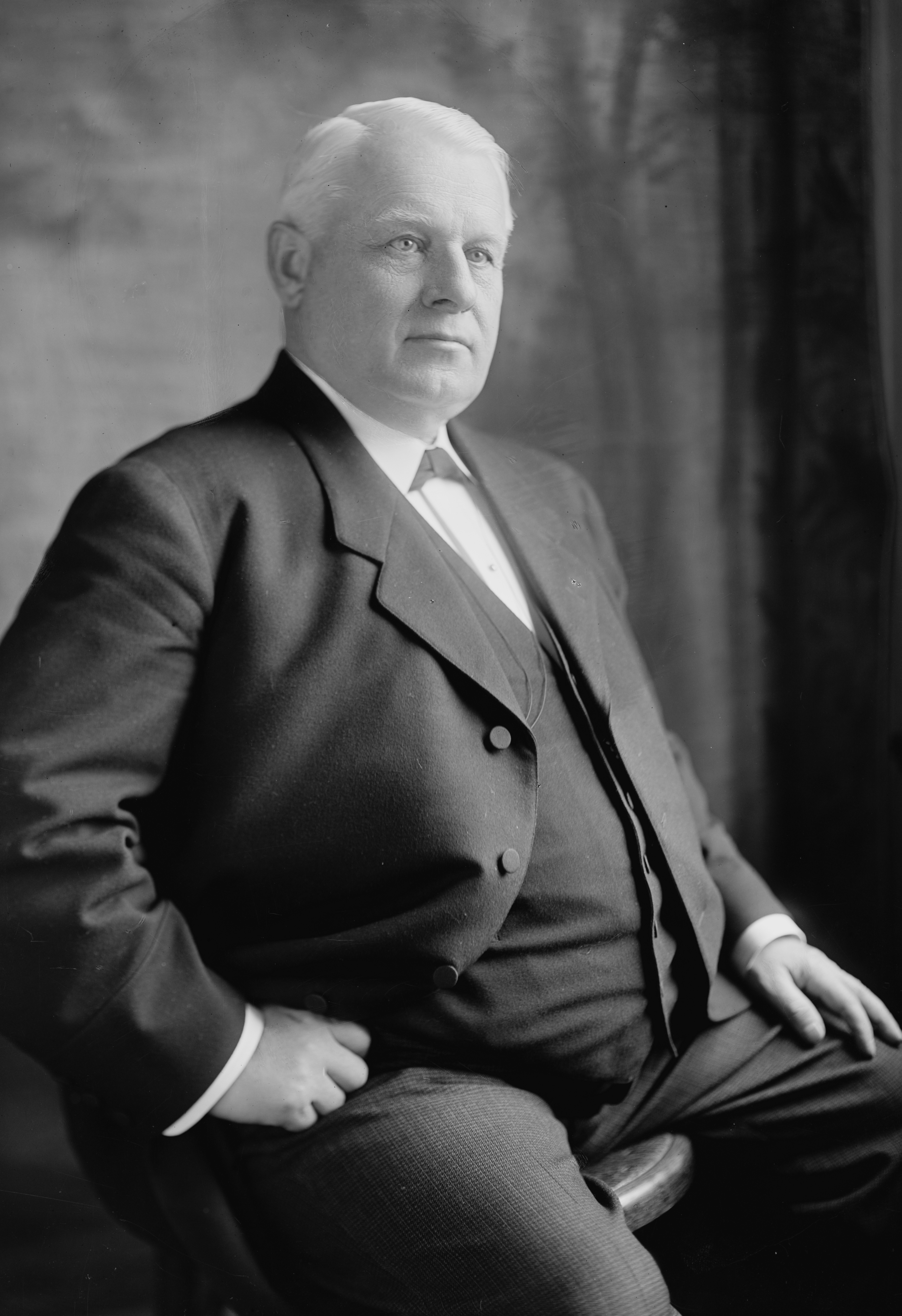 Thomas S. Martin, former U.S. Senator from Virginia.